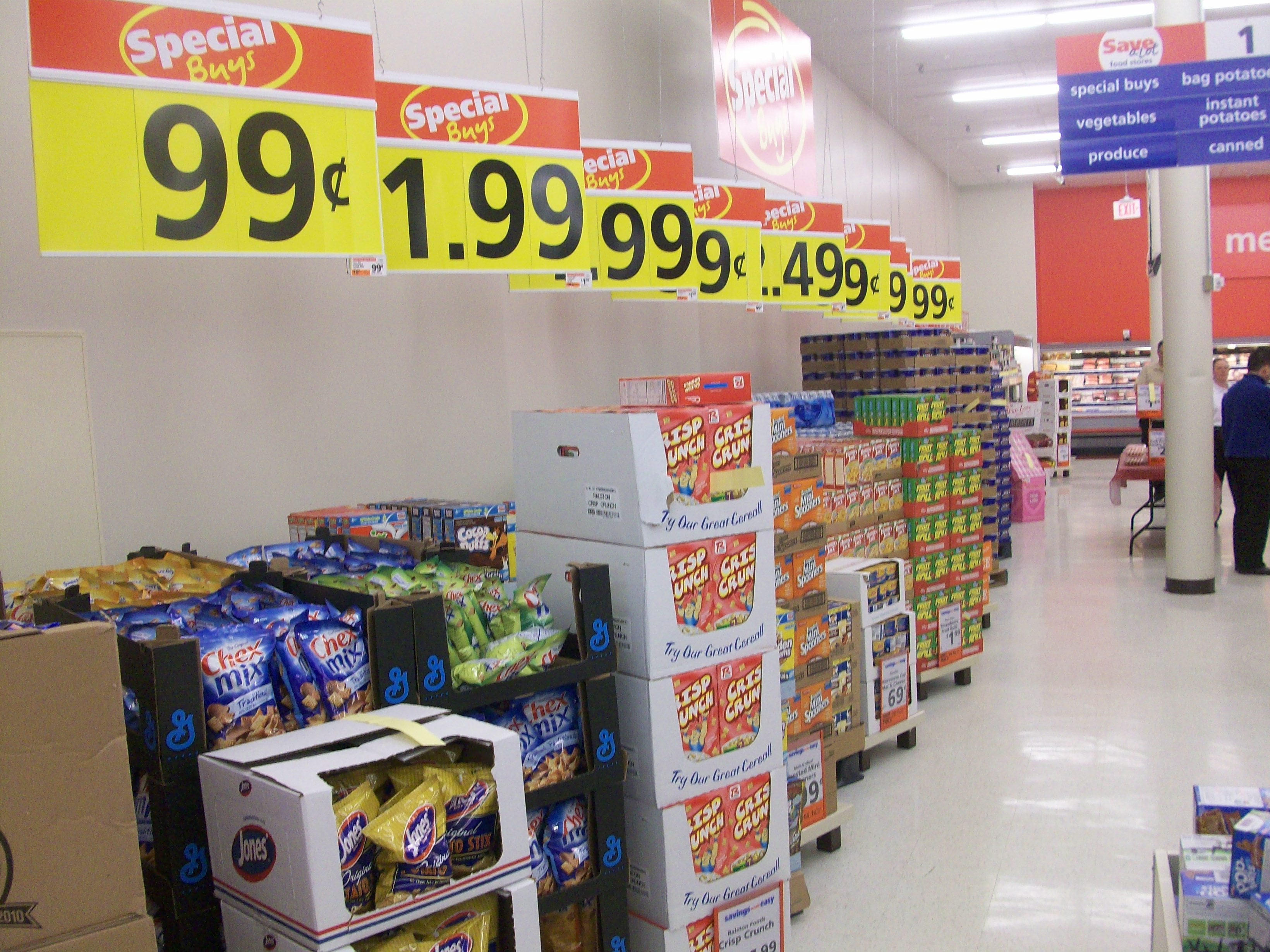 Special Buys section of Save-A-Lot in Hartford, CT